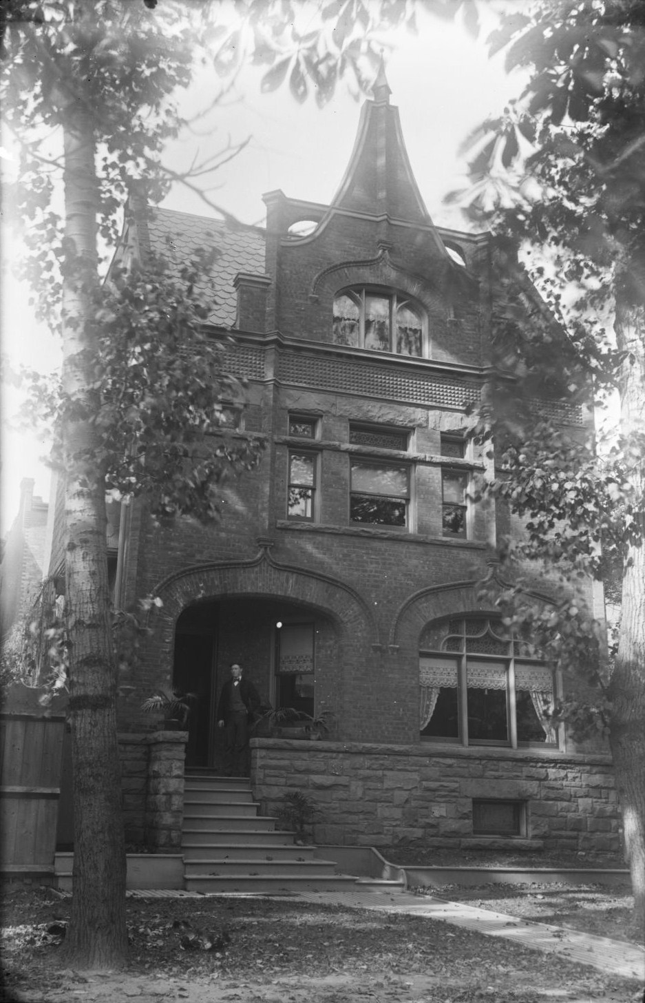 The headquarters of the Canadian Military Institute on University Avenue in 1896. In 1906, the organization (now the Royal Canadian Military Institute) moved to its existing building on University Avenue in 1906. Toronto, Ontario, Canada.